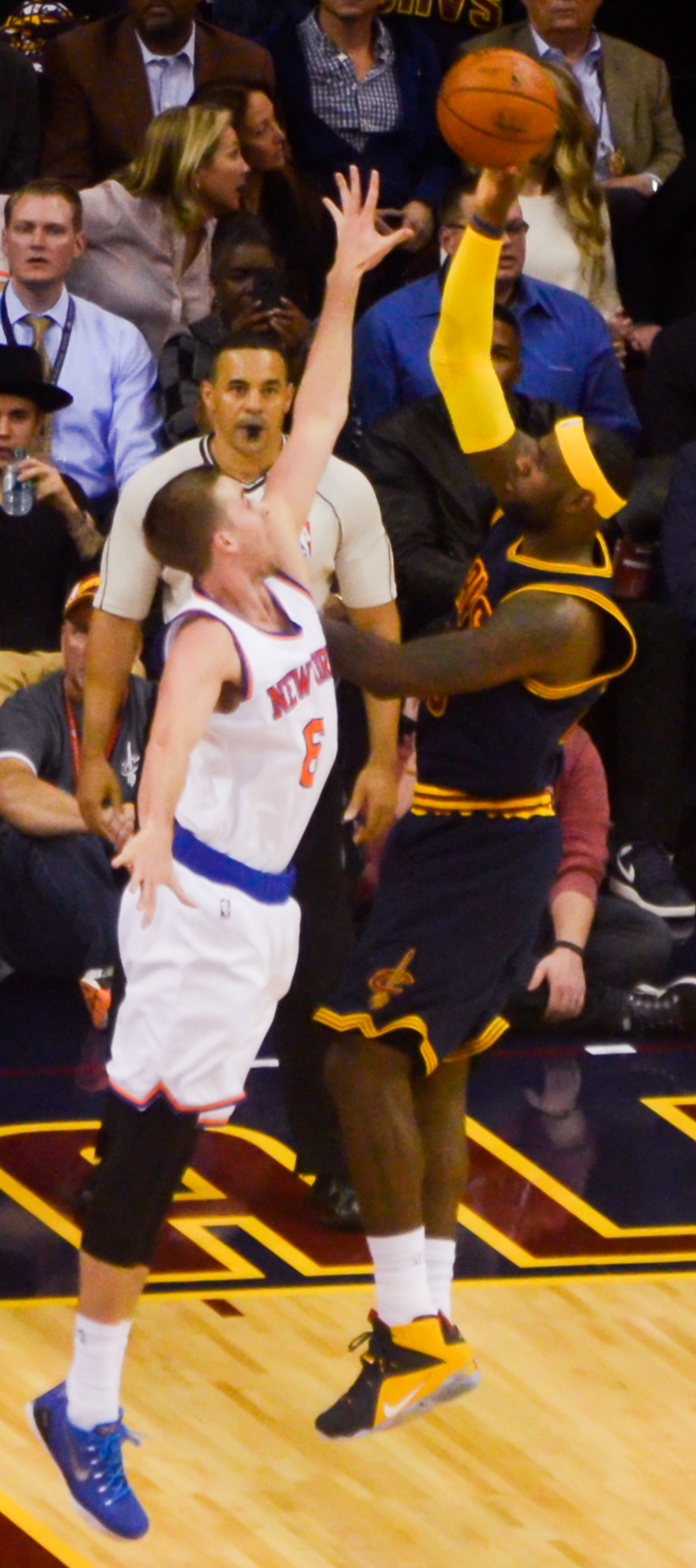 LeBron James of the Cleveland Cavaliers defended by Travis Wear of the New York Knicks